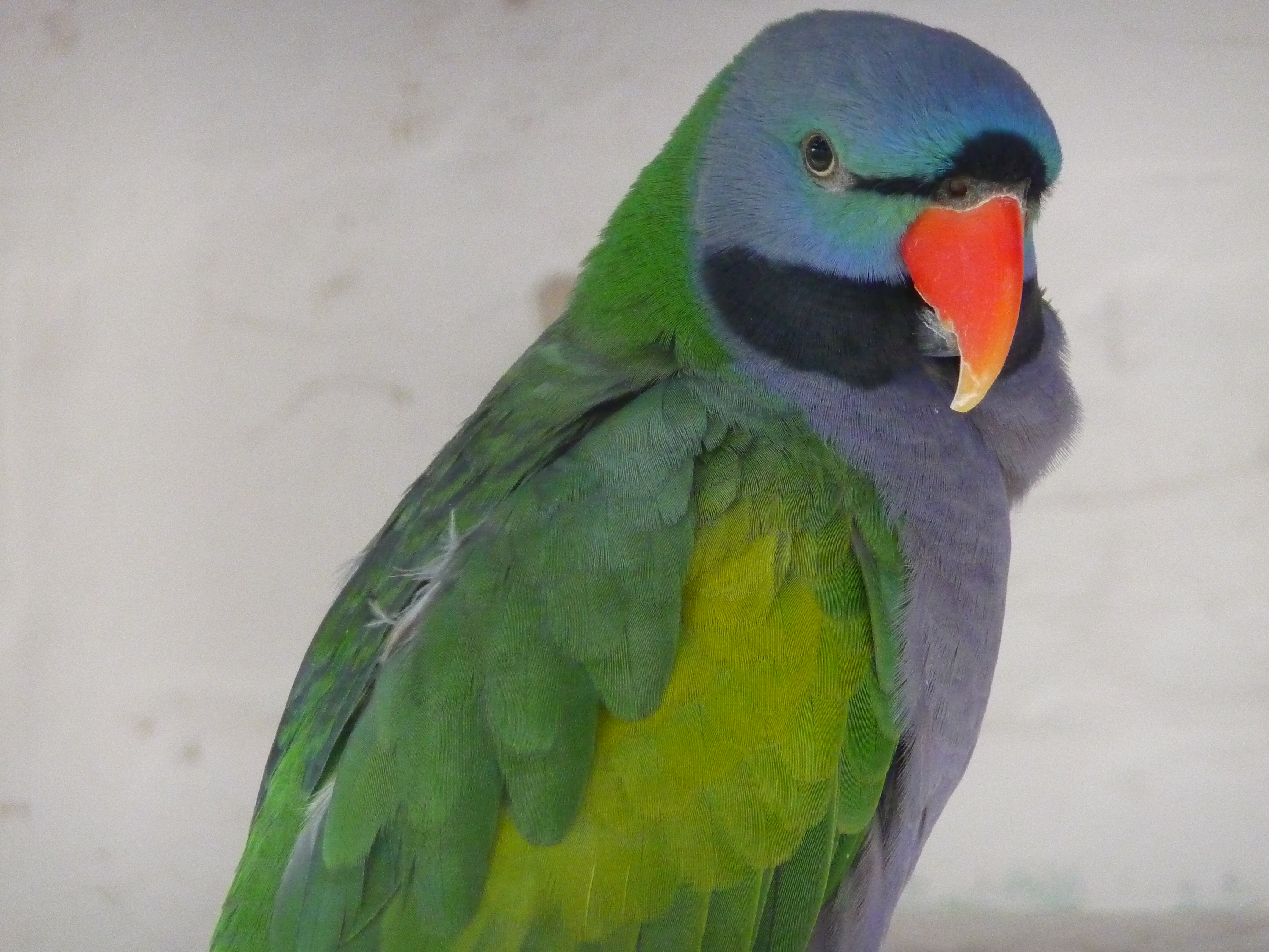 A male Derbyan Parakeet